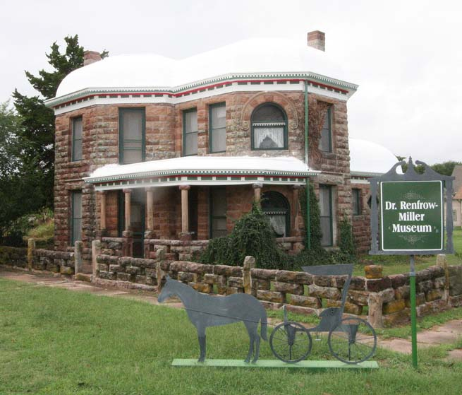 This is a photo of a historic home in Billings Oklahoma that I took myself and am putting into Public Domain.